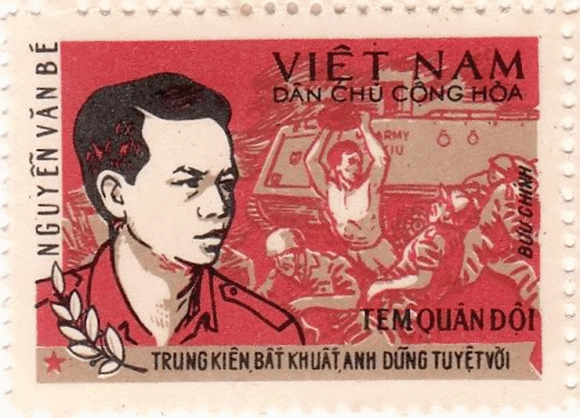 Viet Cong poster from a film commemorating the 1966 martydom of dead hero Nguyen Van Be, who allegedly killed 12 Americans along with numerous ARVN troops and smashed one tank in a suicide attack. He was actually a defector to the South Vietnamese and surfaced later in 1966, astonished to read about his reputed exploits and death. Reference: Robert W. Chandler, War of Ideas – The U.S. Propaganda Campaign in Vietnam, A Westview Special Study, Boulder, CO, 1981 Archives of United States Joint U.S. Public Affairs Office (JUSPAO), Republic of South Vietnam: 1967